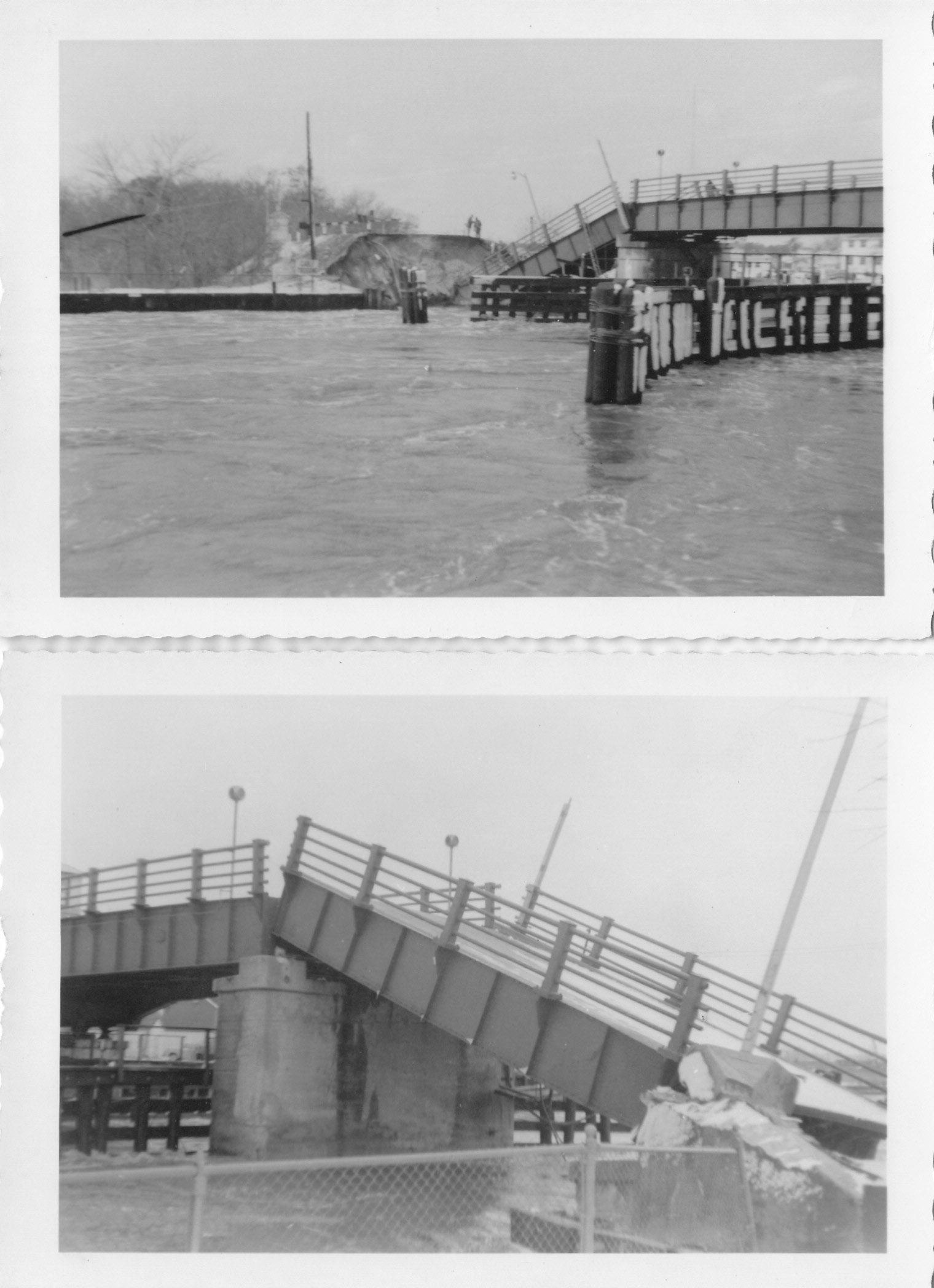 In 1962, I was riding around Eastern Monmouth and Ocean Counties, New Jersey, USA after a severe nor'easter severely damaged the area. My friend, and I came to the Lovelandtown Bridge across the Point Pleasant Canal which had collapsed in the storm. I shot these black and white photos.